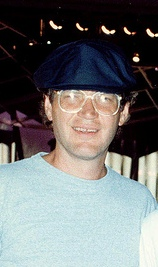 David Letterman at the 39th Emmy Awards in September (1987)